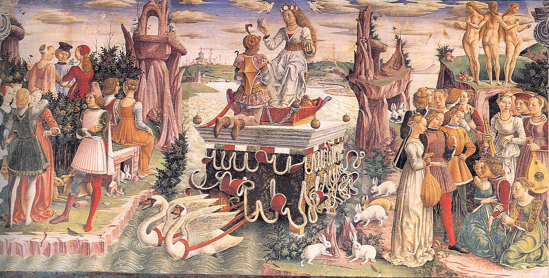 various Ferrarese artist Allegory of April frescomedium QS:P186,Q25631150 Palazzo Schifanoia, Ferrara